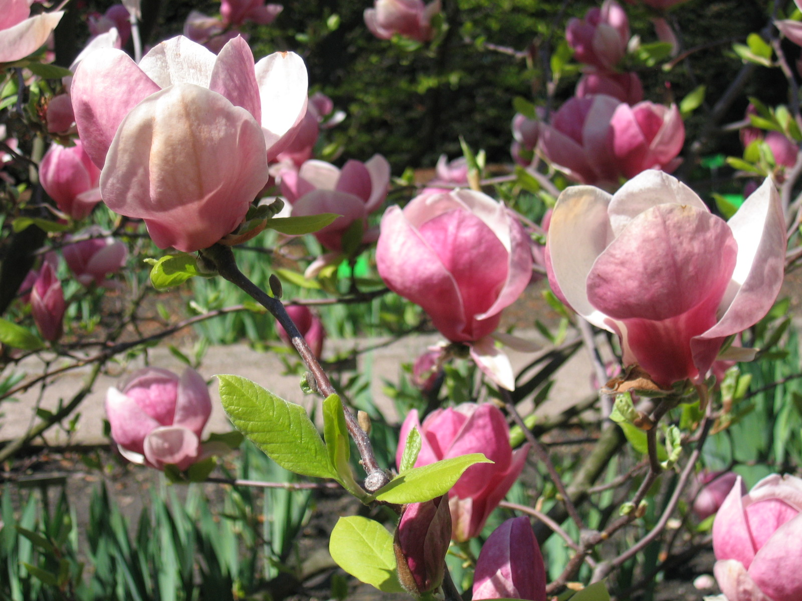 Several flowers of the Saucer Magnolia cultivar 'Lennei' (Magnolia × soulangeana 'Lennei' ), Wrocław University Botanical Garden, Wrocław, Poland.